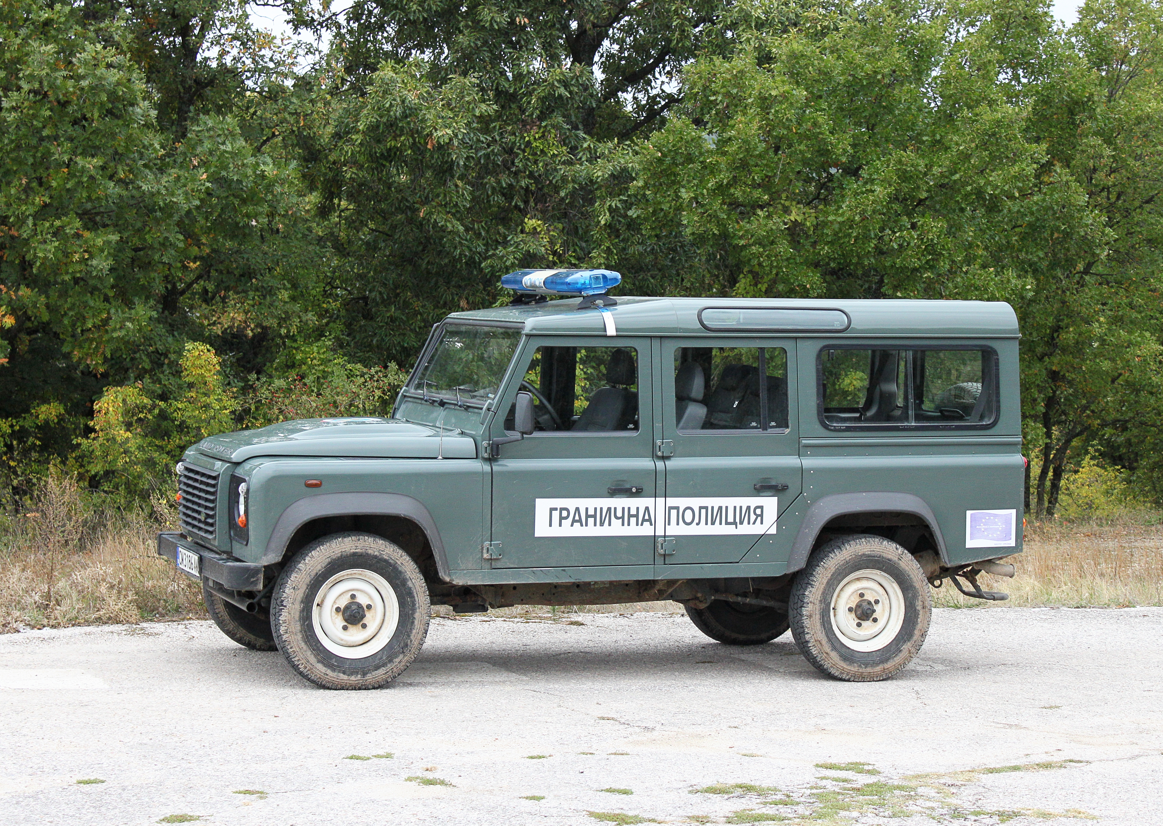 Border polica car, Bulgaria